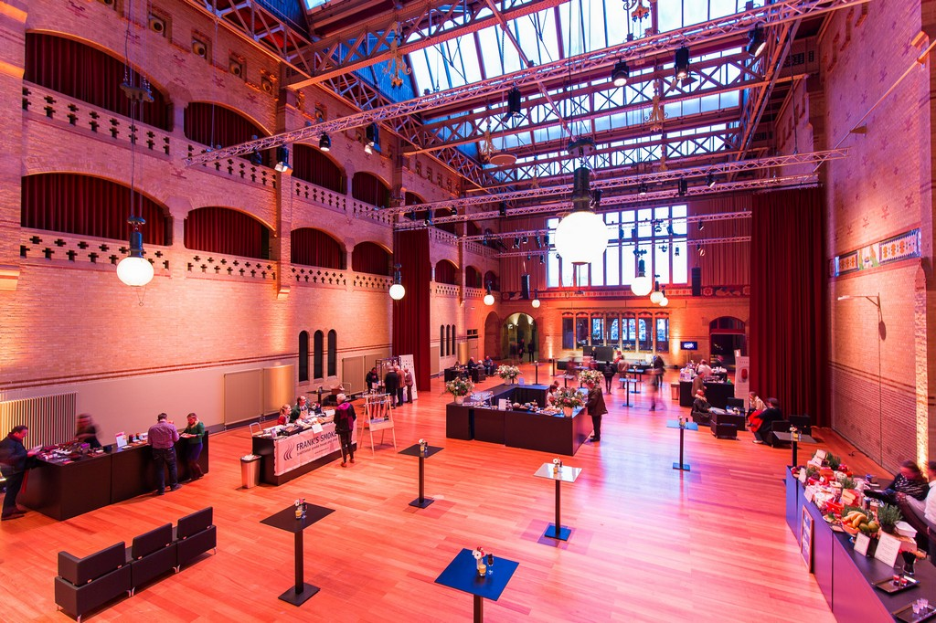 Beurs van Berlage